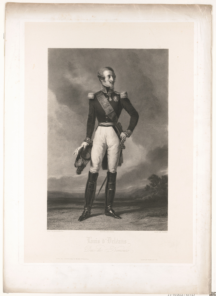 Title: Louis d'Orleans, Duc de Nemours Physical description: 1 print. Notes: This record contains unverified data from PGA shelflist card.; Associated name on shelflist card: Pannier.